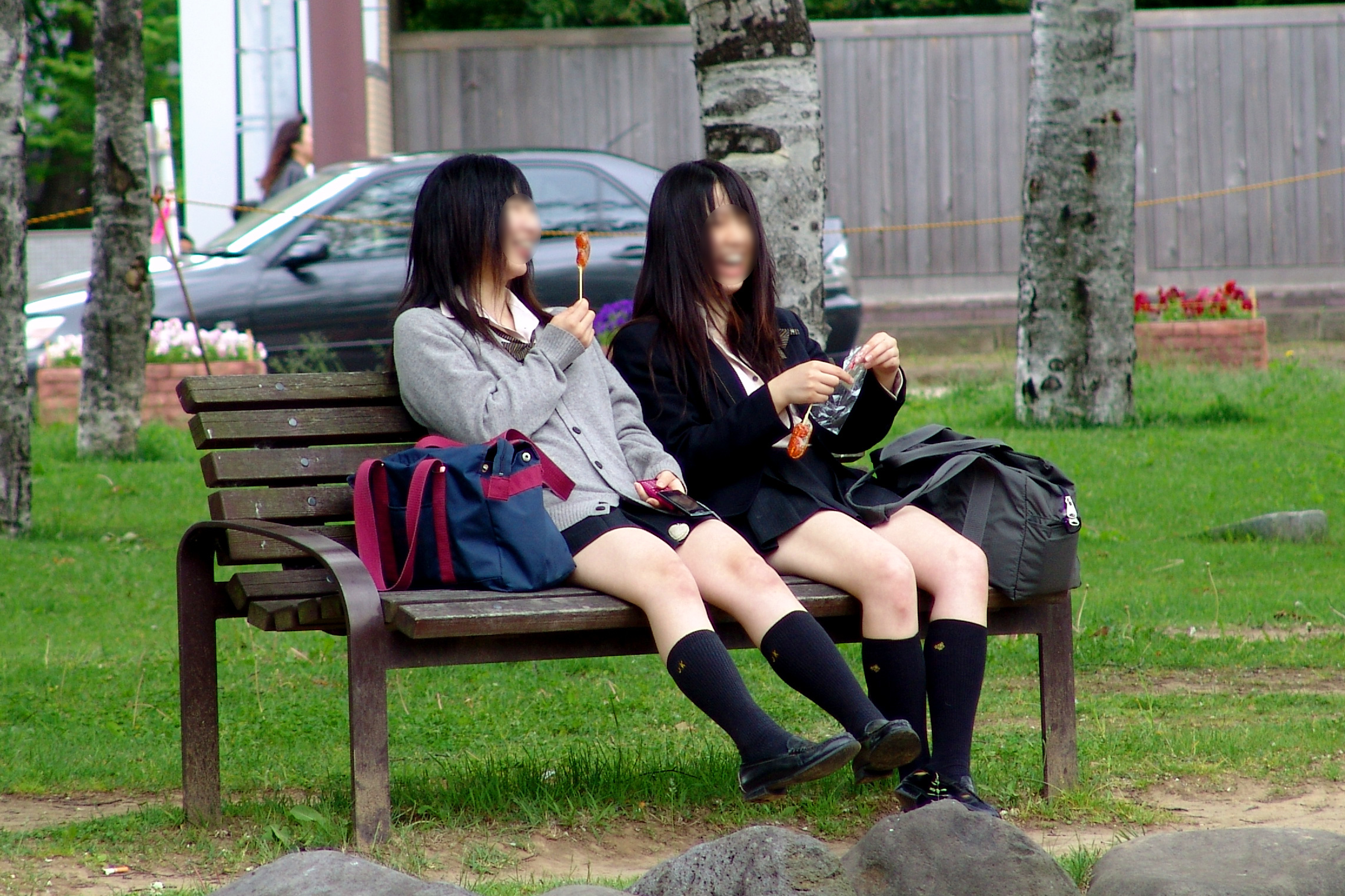 Sapporo Festival. (2008). Senior high school student.